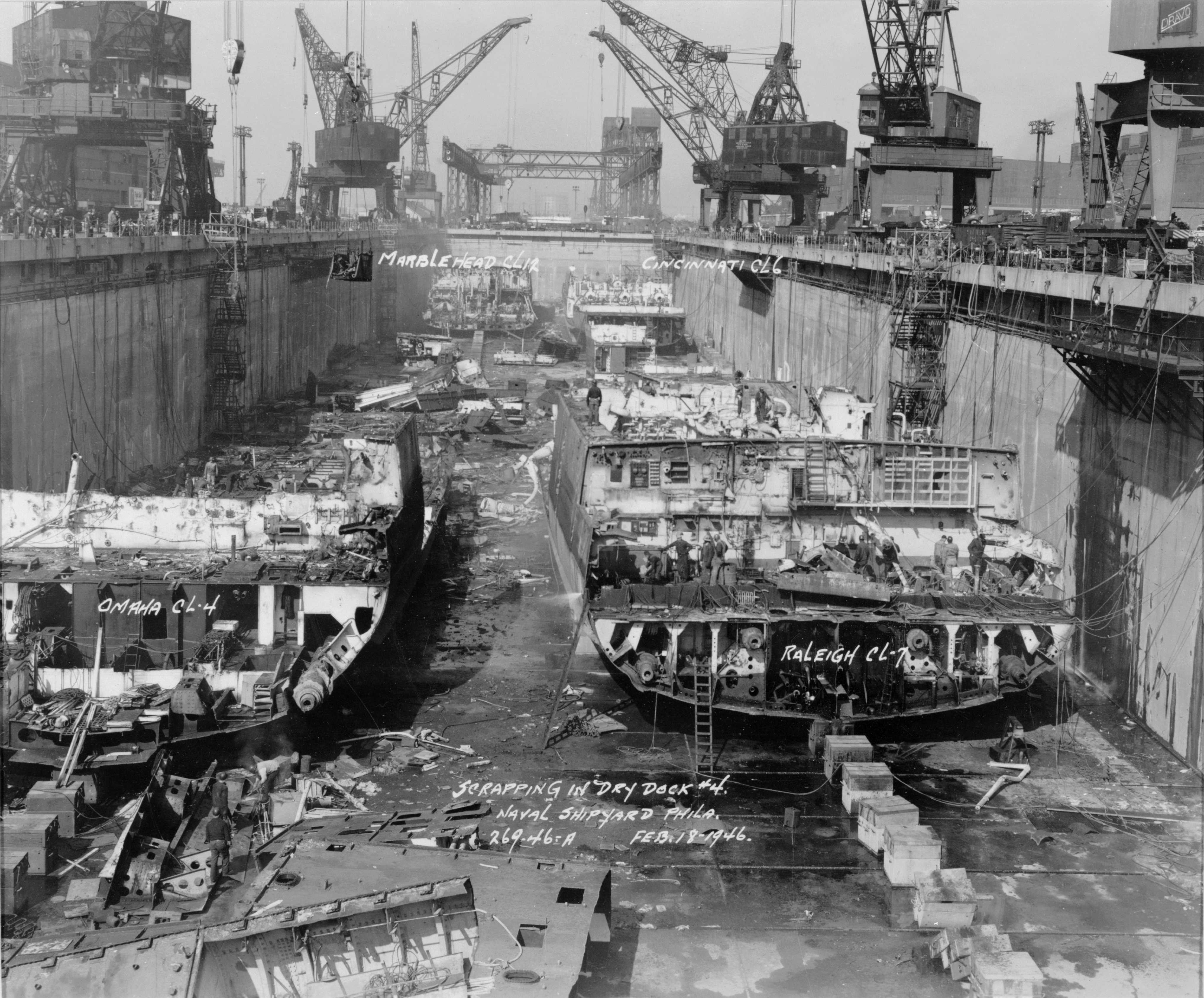 Scrapping of the U.S. Navy Omaha-class light cruisers USS Omaha (CL-4), USS Cincinnati (CL-6), USS Raleigh (CL-7) and USS Marblehead (CL-12) in Dry Dock No.4 of Philadelphia Naval Shipyard, Pennsylvania (USA), on 18 February 1946.